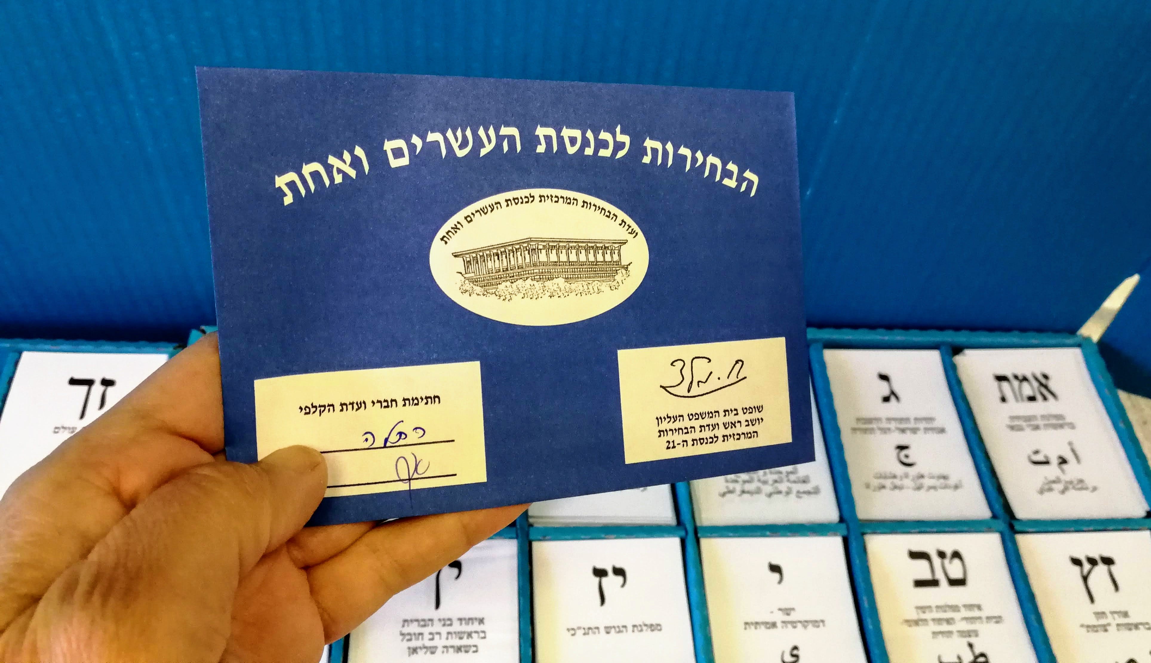 Ballots papers of Israeli legislative election, 2019